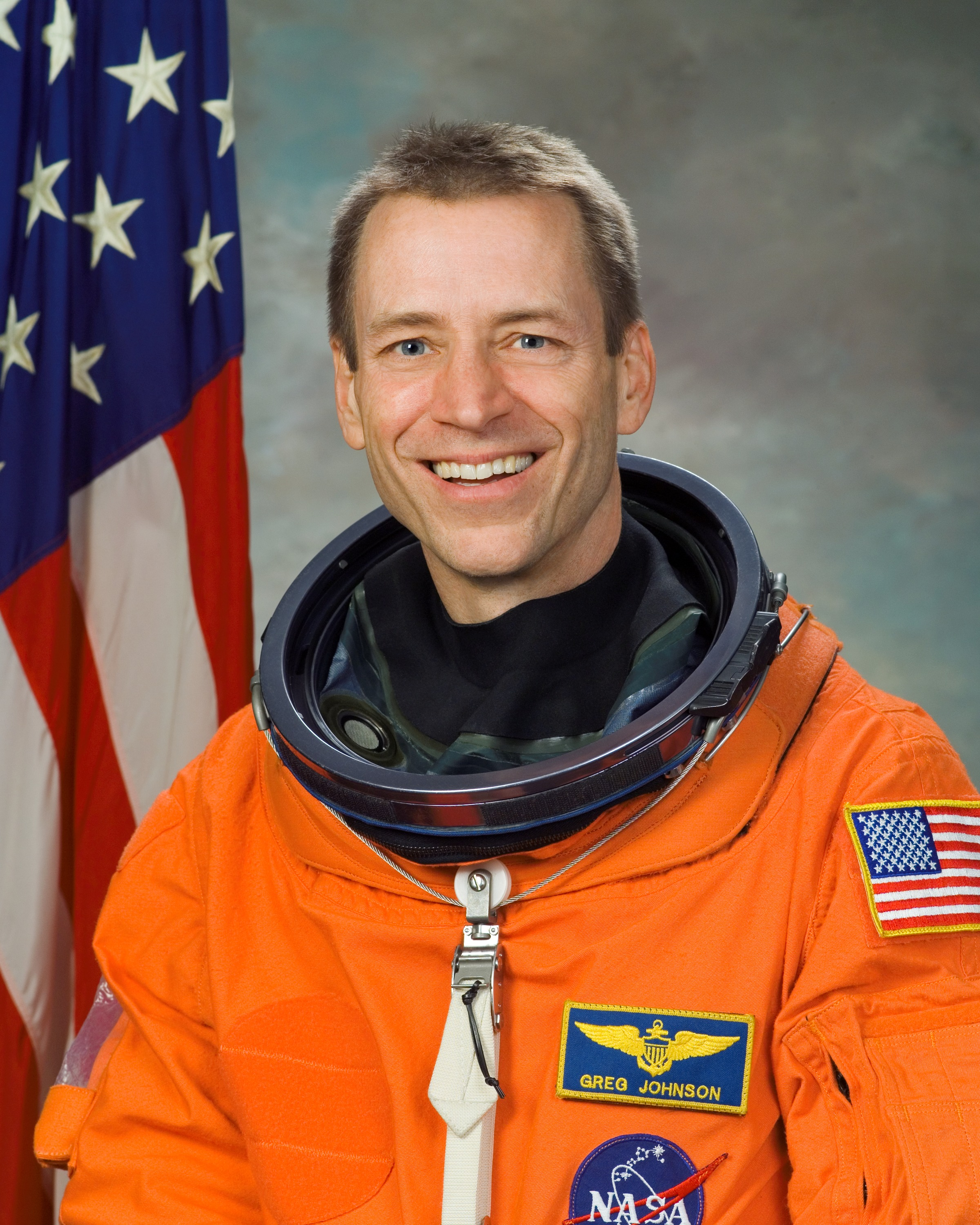 Portrait astronaut Gregory Carl Johnson